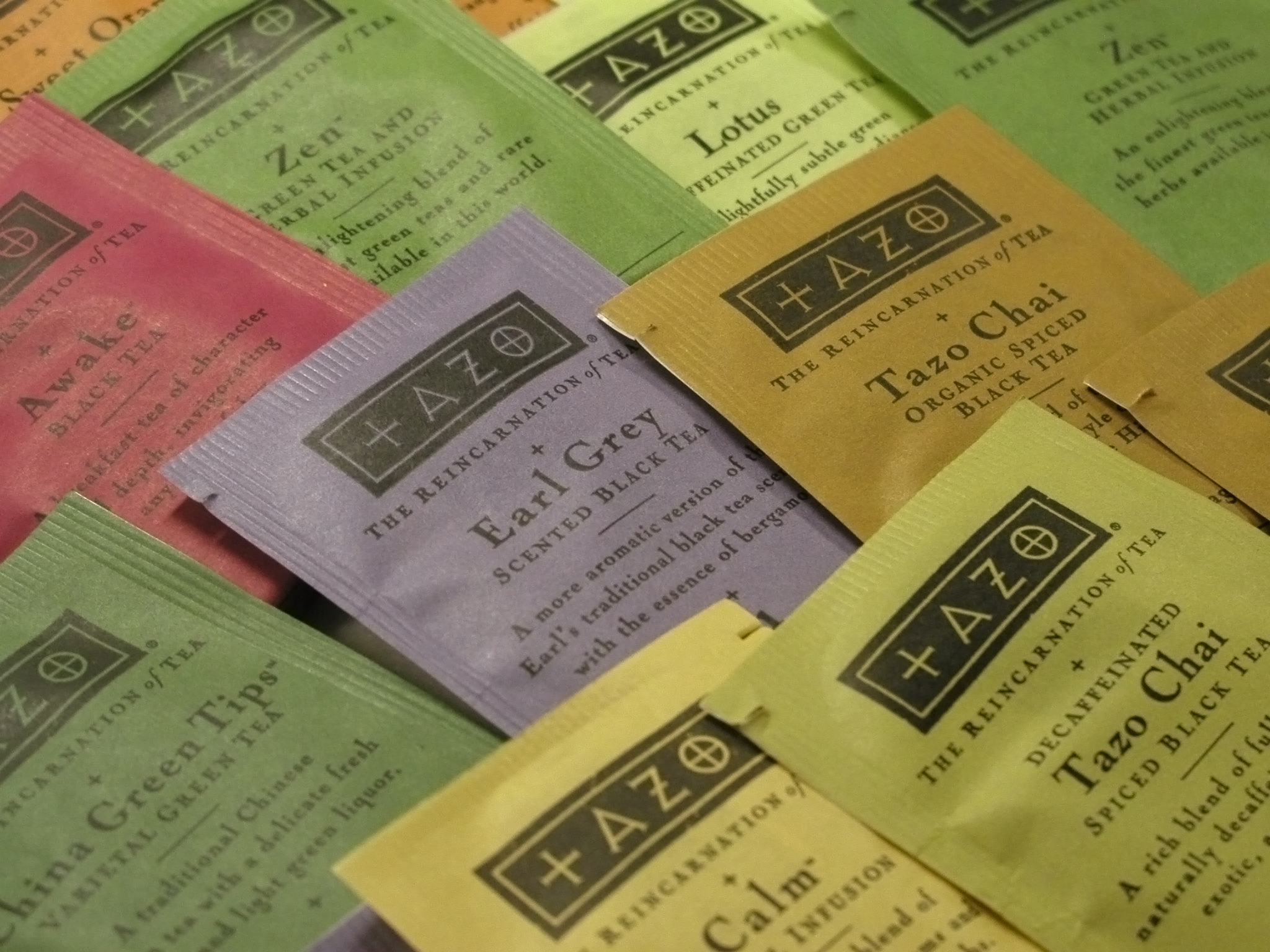 A selection of teas from the Tazo tea company.